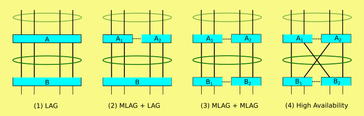 Illustration showing several configurations: (1) Four-member link aggregation group (2) The same, where one side of the group is using MC-LAG (3) The same, where both sides are using it (4) Finally, a common high-availability configuration where both sides use MC-LAG.